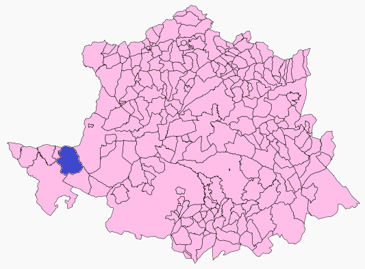 Membrío